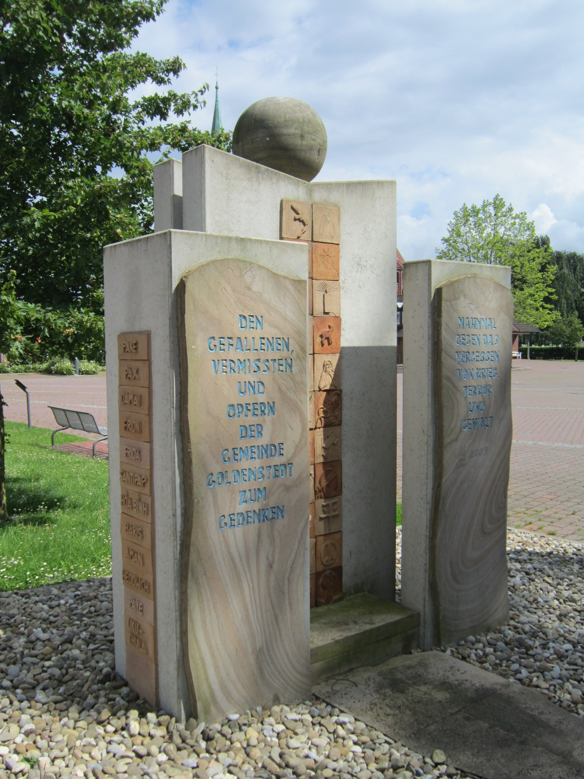 Peace memorial in Goldenstedt (made by students of "Marienschule Goldenstedt, supported by Uwe Oswald)